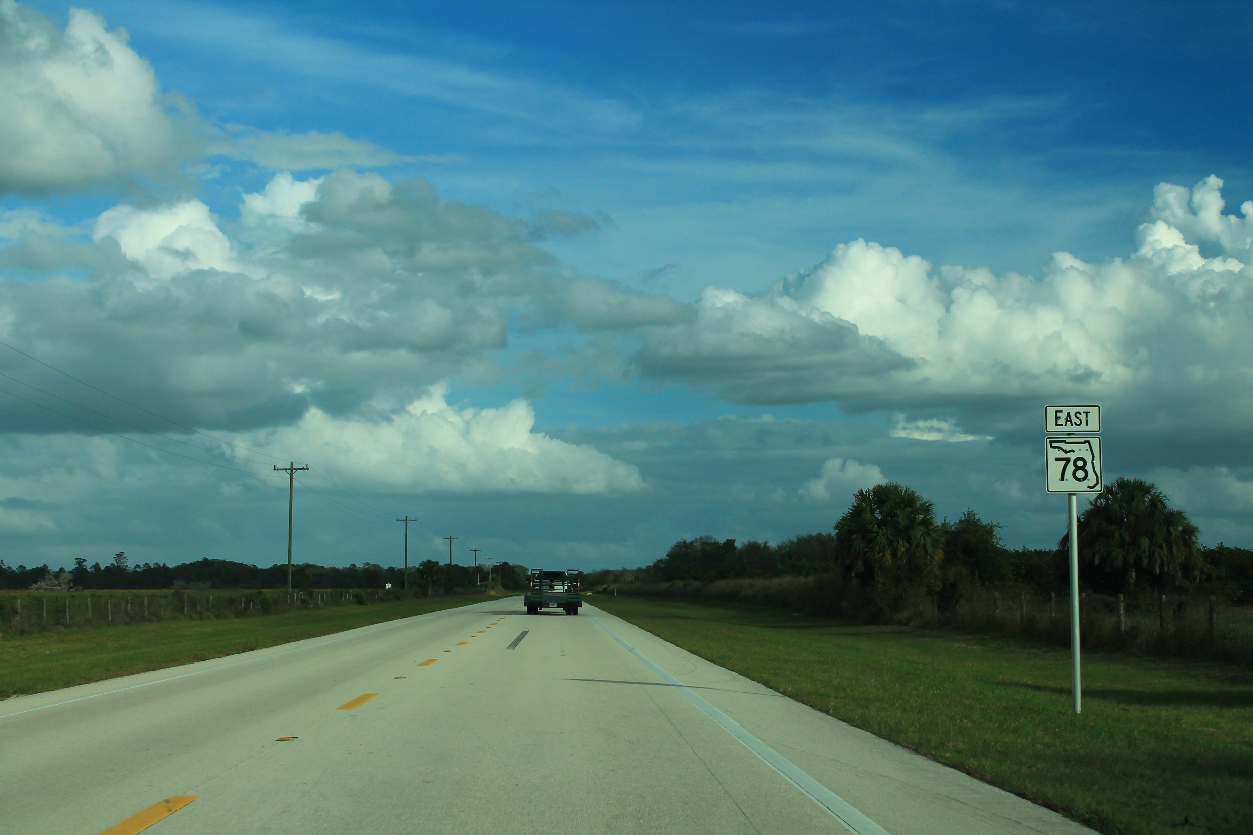 Florida State Road 78 between La Belle and Moore Haven.